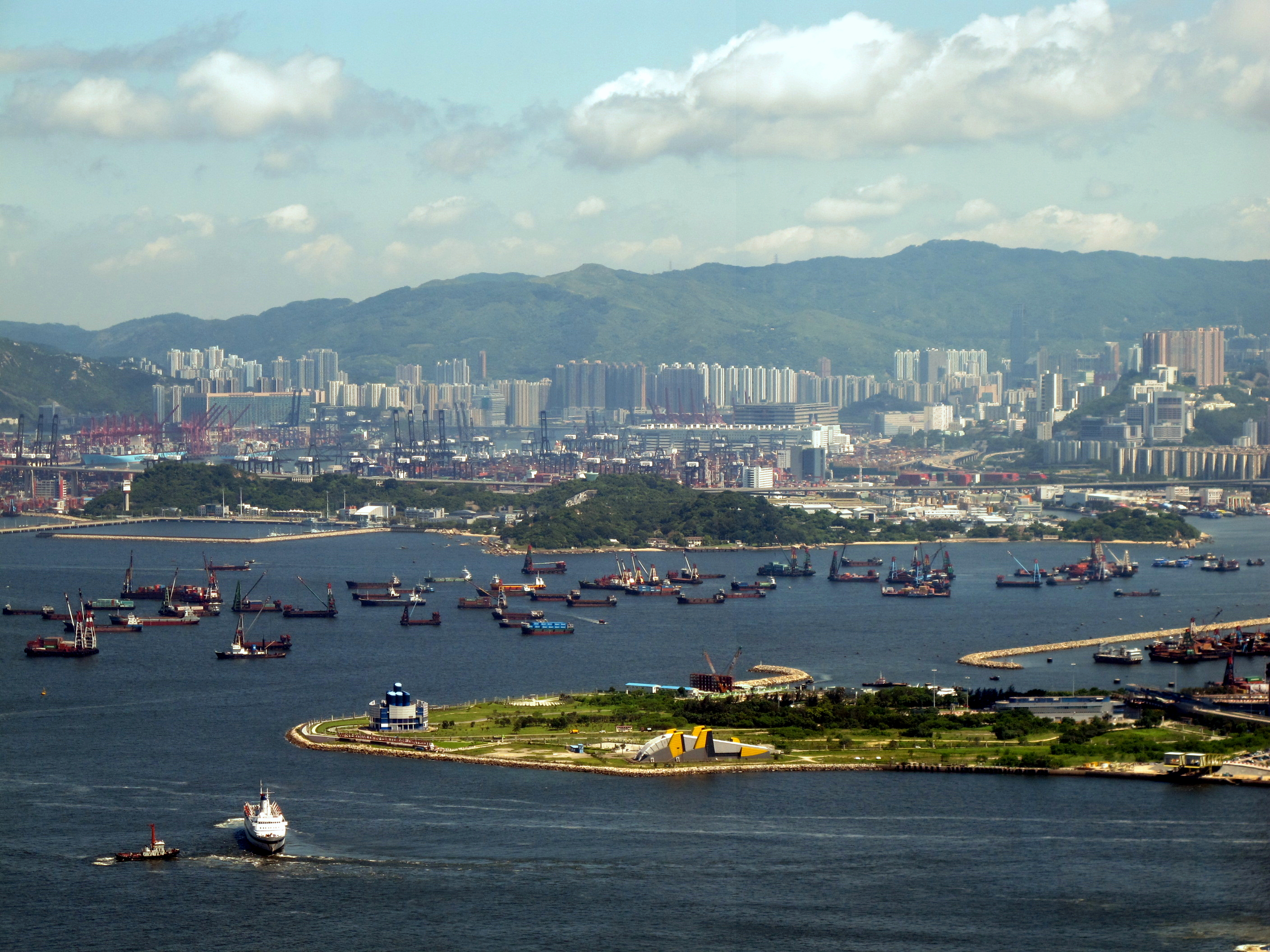 Stonecutters Island